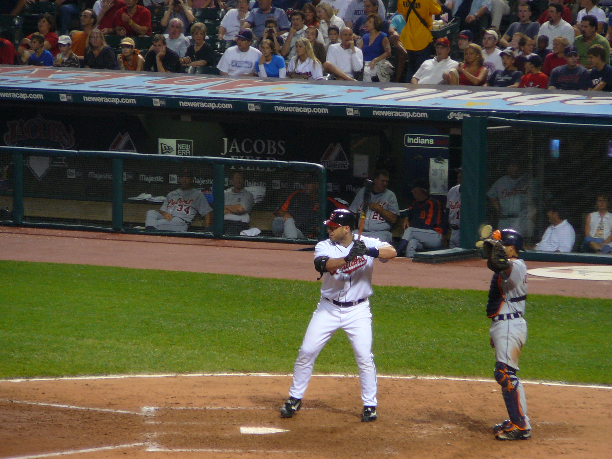 Travis Hafner intentionally walked